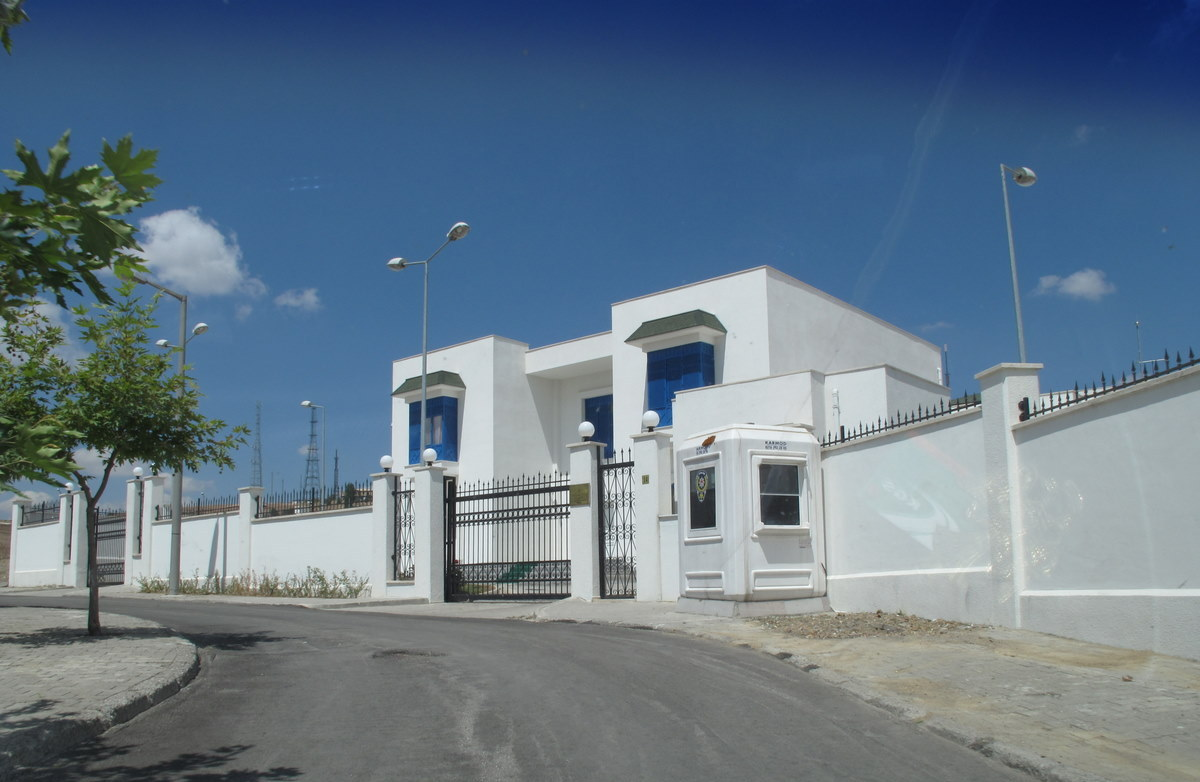 Tunis Embassy